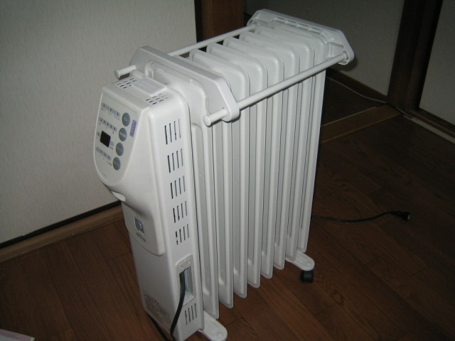 elektric radiator heater. Heat transfer fluid is mineral oil.